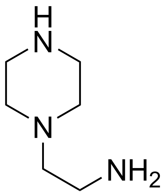 Skeletal structure of aminoethylpiperazine